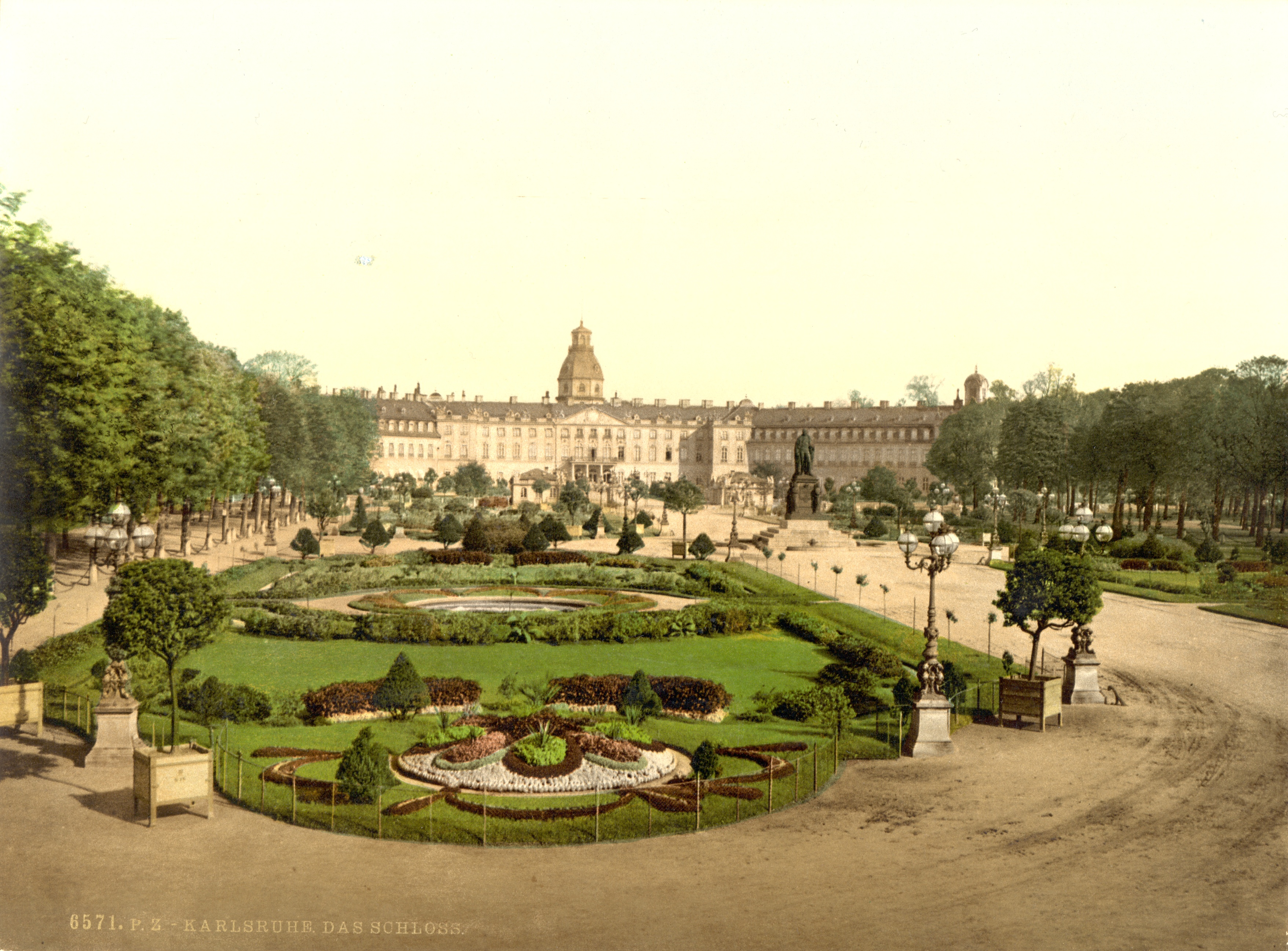 Karlsruhe Palace, southern aspect